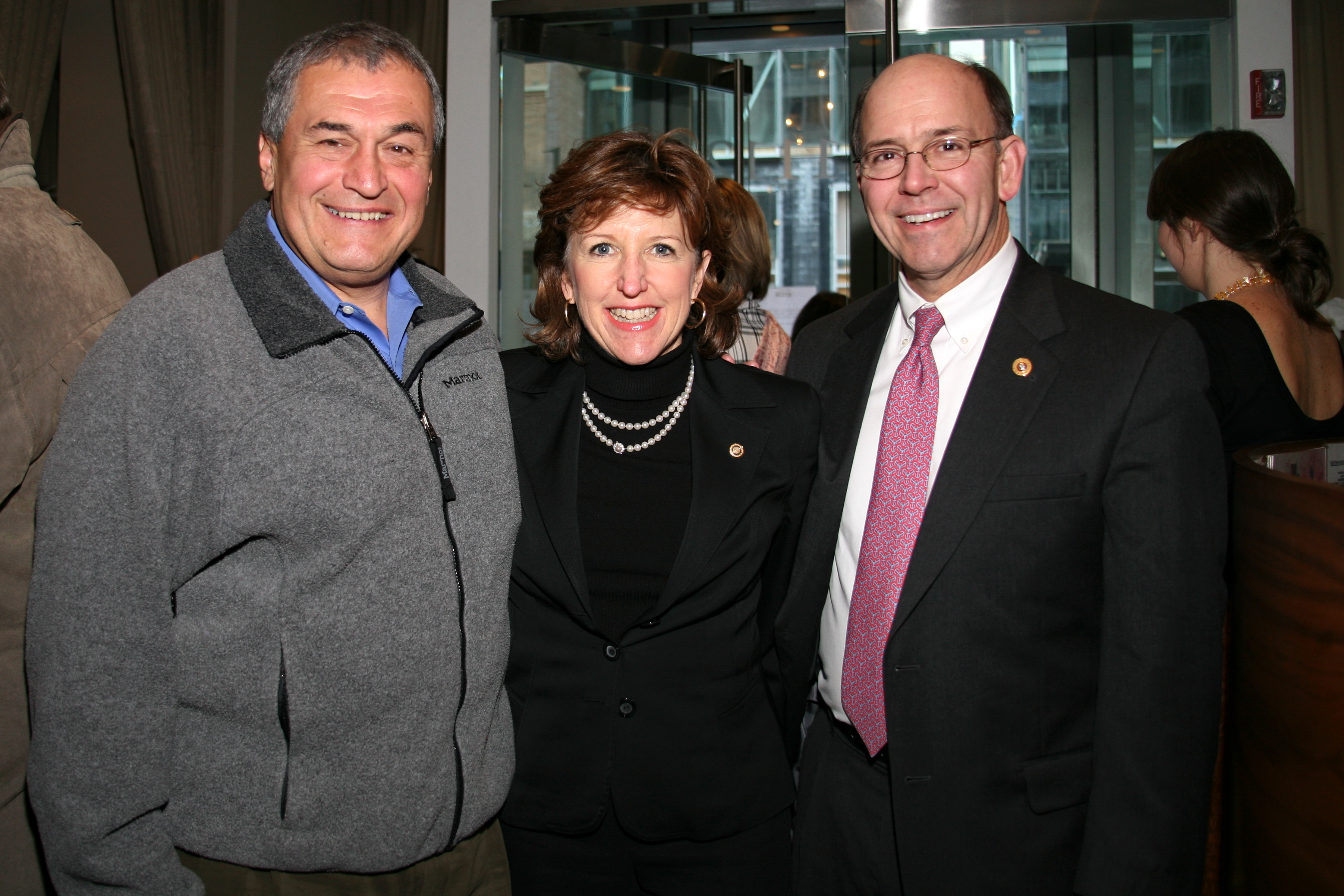 Tony Podesta, Senator Kay Hagan of North Carolina, and husband Chip.